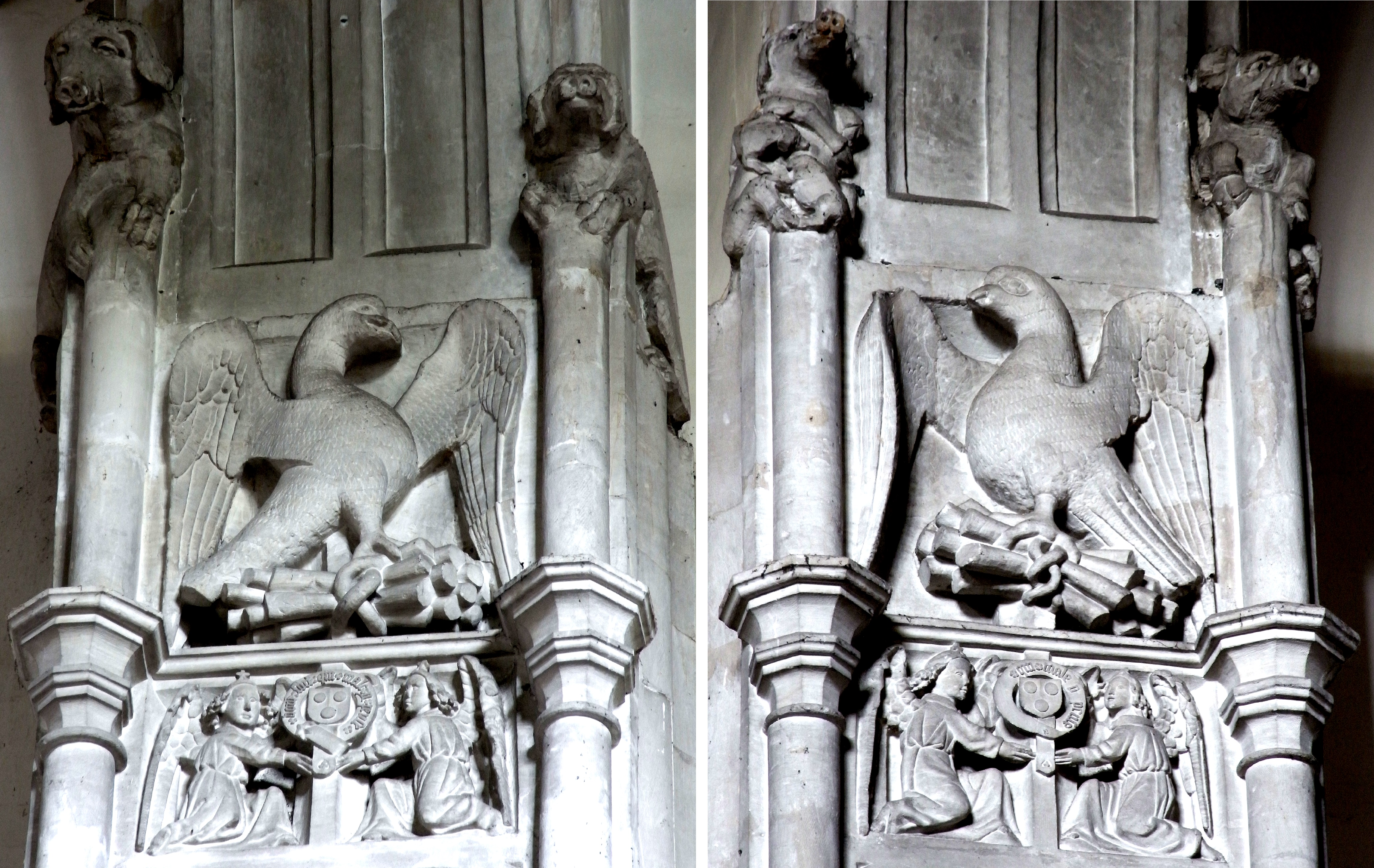 Pair of heraldic devices either of Edward Courtenay, 1st Earl of Devon (d.1509), KG, or of his grandson Henry Courtenay, 1st Marquess of Exeter (1498–1539), KG, both seated at Tiverton Castle, Devon. North and south sides of top of chancel arch, St Peter's Church, Tiverton. Showing the arms of Courtenay: Or, three torteaux circumscribed by the Garter, with angel supporters. Above is the heraldic badge of the Courtenay falcon and faggot and on top of each column is shown a Courtenay boar, one of which is actually a sow, suckling piglets. The very rarely seen heraldic badge above of the "Courtenay falcon and faggot" (not the usual ancient Courtenay crest of a plume of ostrich feathers) seems to have been adopted during the Wars of the Roses and depicts A falcon rising holding in its claws a bundle of sticks. The significance of the imagery is unknown. It is possibly a reference to the "Courtenay Fagot" described by Richard Carew (d.1620) in his Survey of Cornwall (pages 132-3)[1], a naturally mis-shapen piece of wood split at the ends into four sticks, one of which again split into two, which was "carefully preserved by those noble men". Carew states: "and in semblable maner the last Earles inheritance accrued unto 4 Cornish gent(lemen): Mohun, Trelawny, Arundell of Talverne and Trethurffe". This is a reference to the heirs of Edward Courtenay, 1st Earl of Devon (c.1527-1556), the last of the Courtenay Earls of Devon seated at Tiverton Castle. Alternatively it may be a corrupted version of the well-known classical Greek and Roman image often displayed on ancient coins of the "Eagle of Jupiter" holding in his claws a thunderbolt, the emblem of that deity. Mediaveal nobles frequently kept classical cameos and other valuables in a Cabinet de Medailles as curiosities, and thus the imagery would have been familiar.